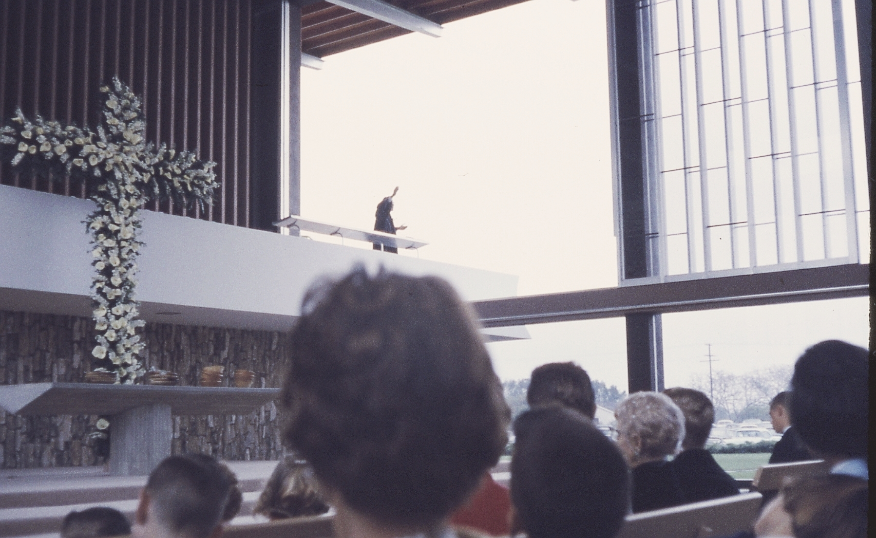 The interior of the Garden Grove Community Drive-In Church, with Rev. Schuller preaching a sermon to the parishioners in their cars, as well as to the ones in the walk-in part of the Church. Taken with an Exakta VX SLR 35mm camera, using Ektachrome slide film.